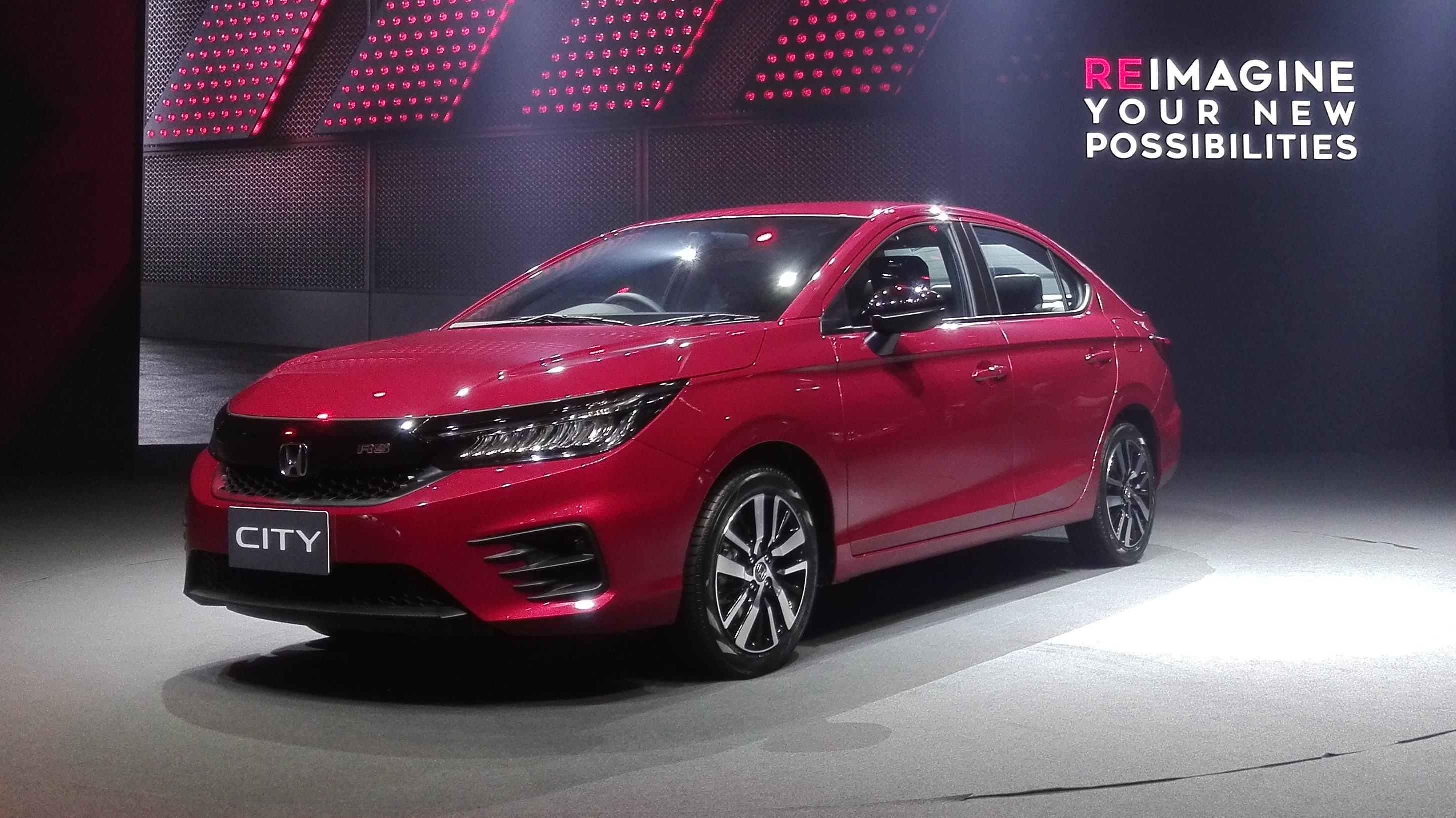 The All-New 2020 Honda City RS World Premiered in Thailand. on November 25, 2019.